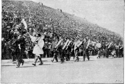 Triumphant procession of all the Champions round the track of the Stadion